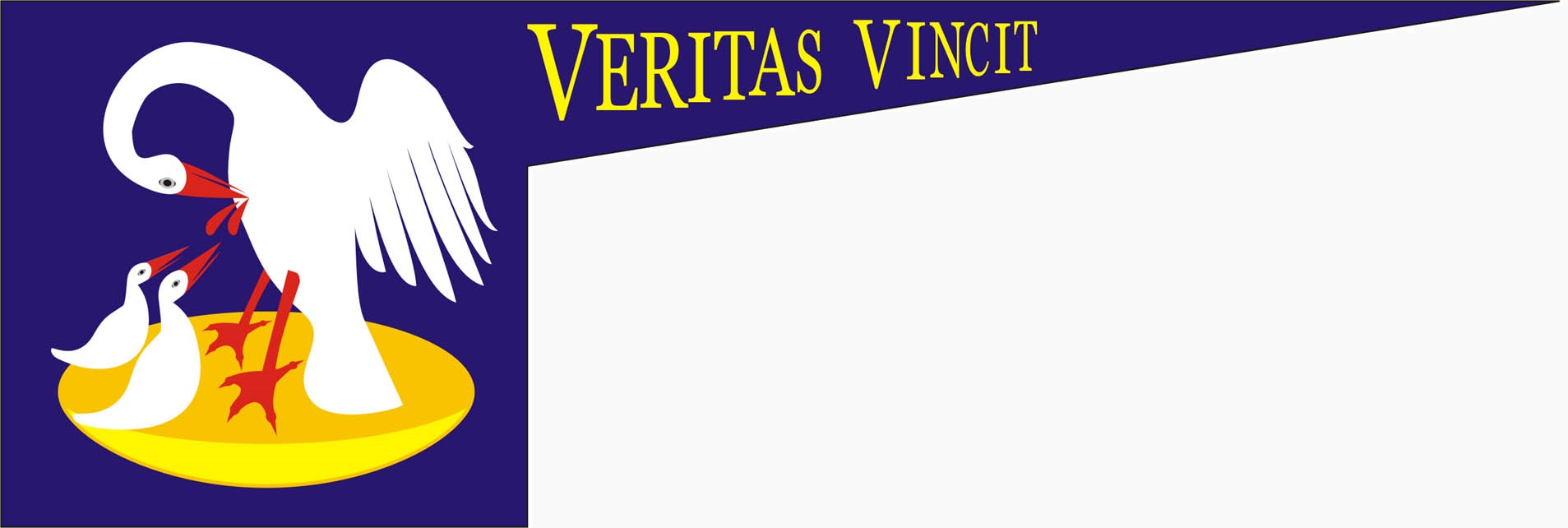 Standard of one of Bohemian hussite army from 15th century – Orphans (Czech Sirotci, German Waisen)